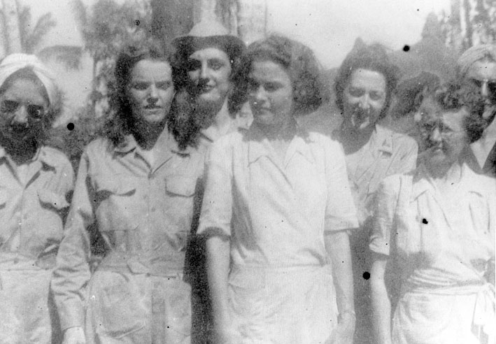 Army Nurses in Santo Tomas Internment Camp, 1943. Left to right: Bertha Dworsky; Sallie P. Durrett; Earlene Black; Jean Kennedy; Louise Anchieks; Millie Dalton. Picture taken by Japanese.